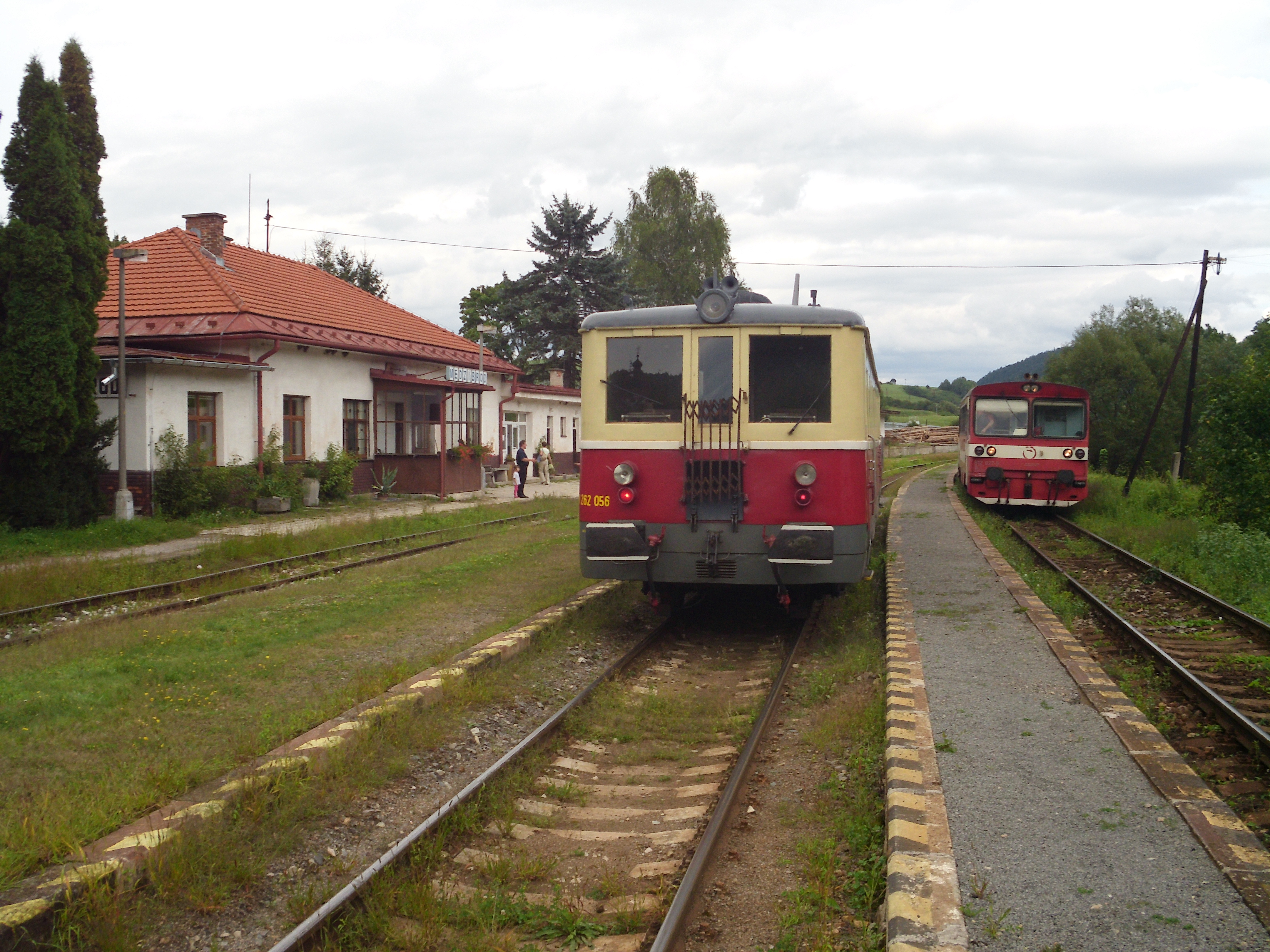 Diesel railcars 812-027 (right, belonging to ŽSSK and 830 (left, marked as M262, belonging to KŽC Doprava) meeting in Medzibrod, Slovakia.